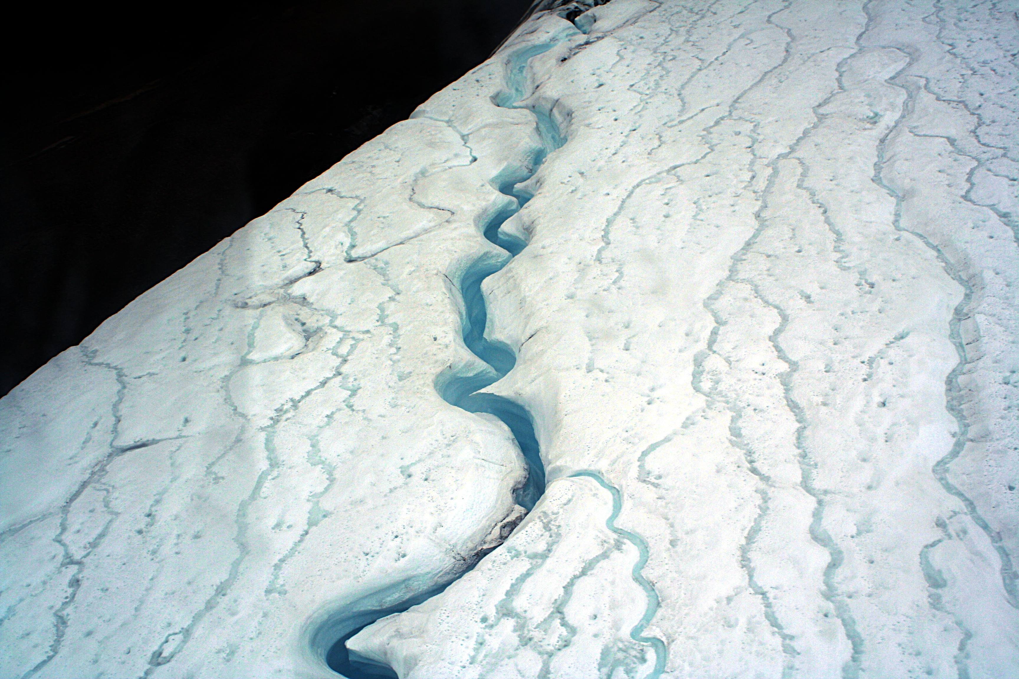 Glacier in Greenland. The picture was taken from a helicopter.